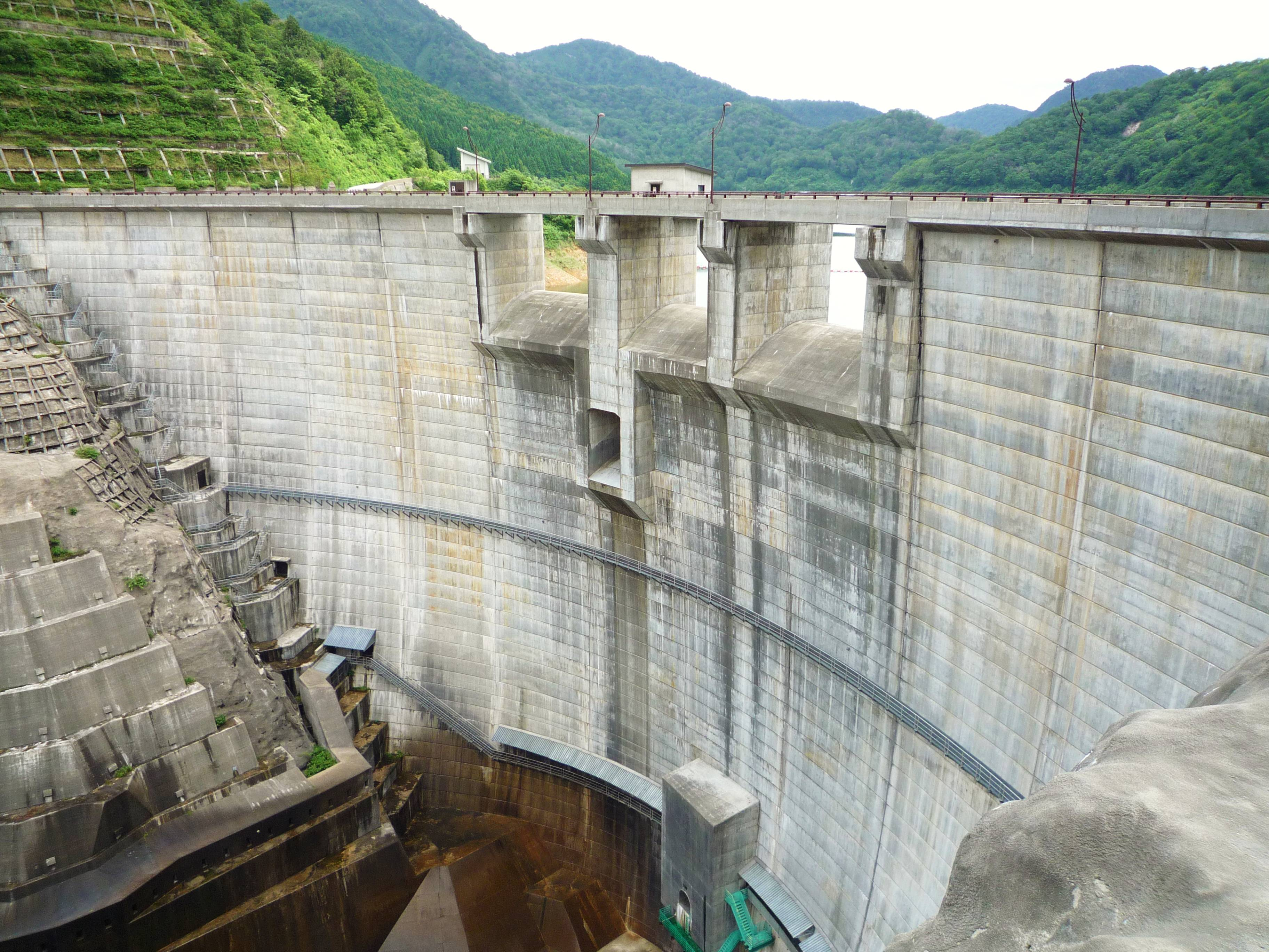 Okumiomote Dam.